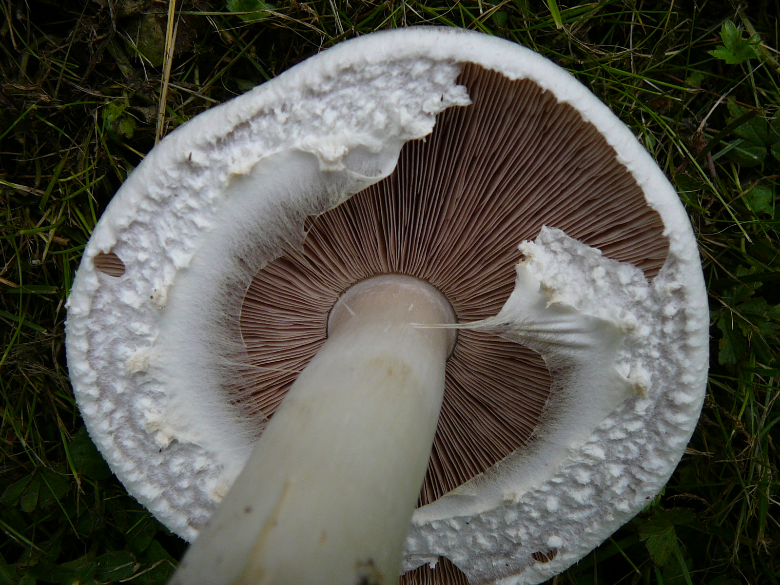 Agaricus arvensis, young. Stuttgart, Germany. Found in August on a lawn, around a Maple tree. 10cm of diameter. When cut: smell of anise and cap stay white. Very slow yellowish oxidation of the foot. Ring but no volva. Pinkish lamellas becoming brown as it gets old.